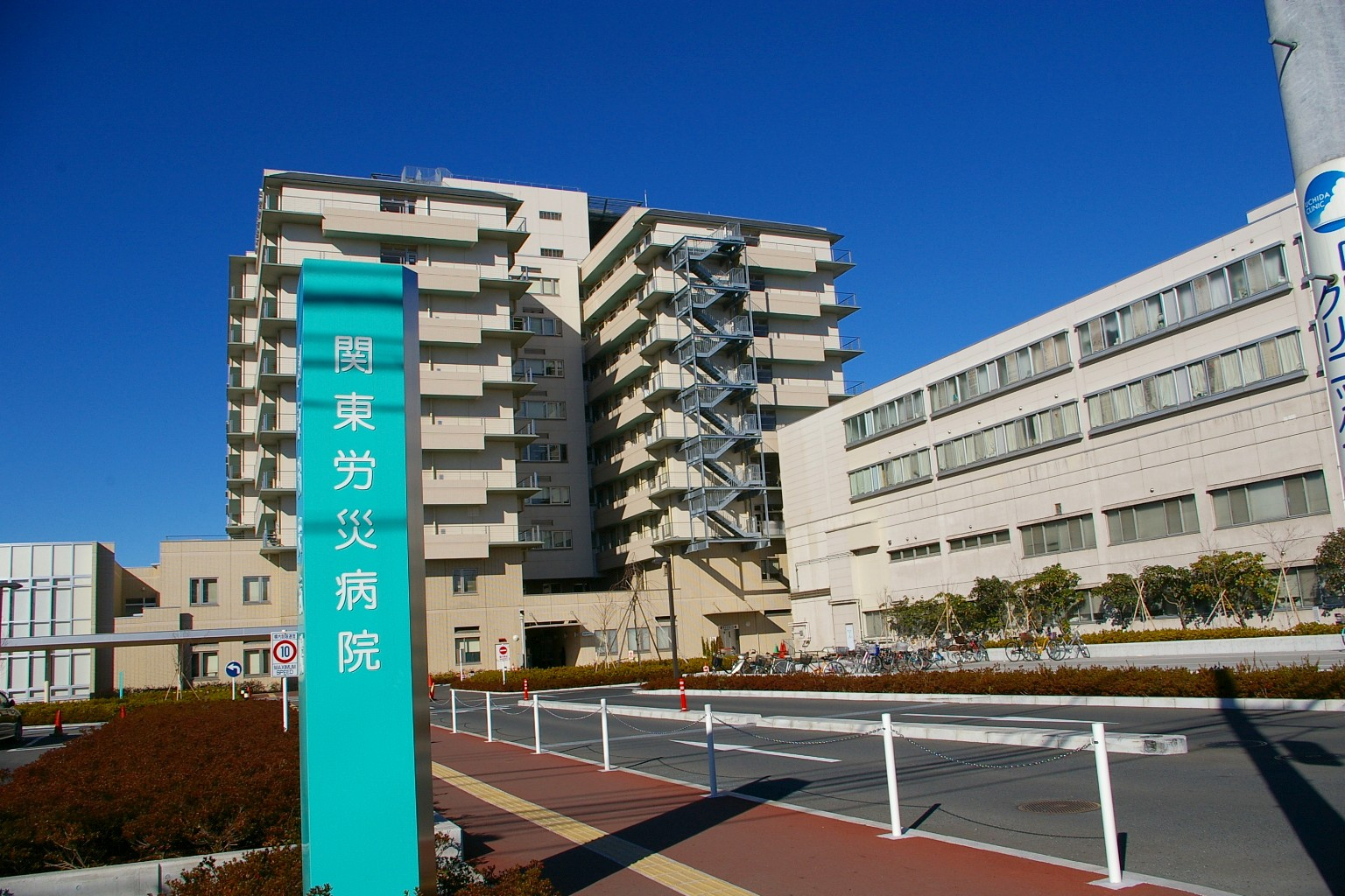 It tooken by me on Jun, 2008 in Kawasaki Kanagawa Japan.